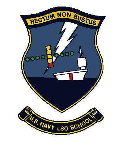 Landing Signal Officer (LSO) patch.